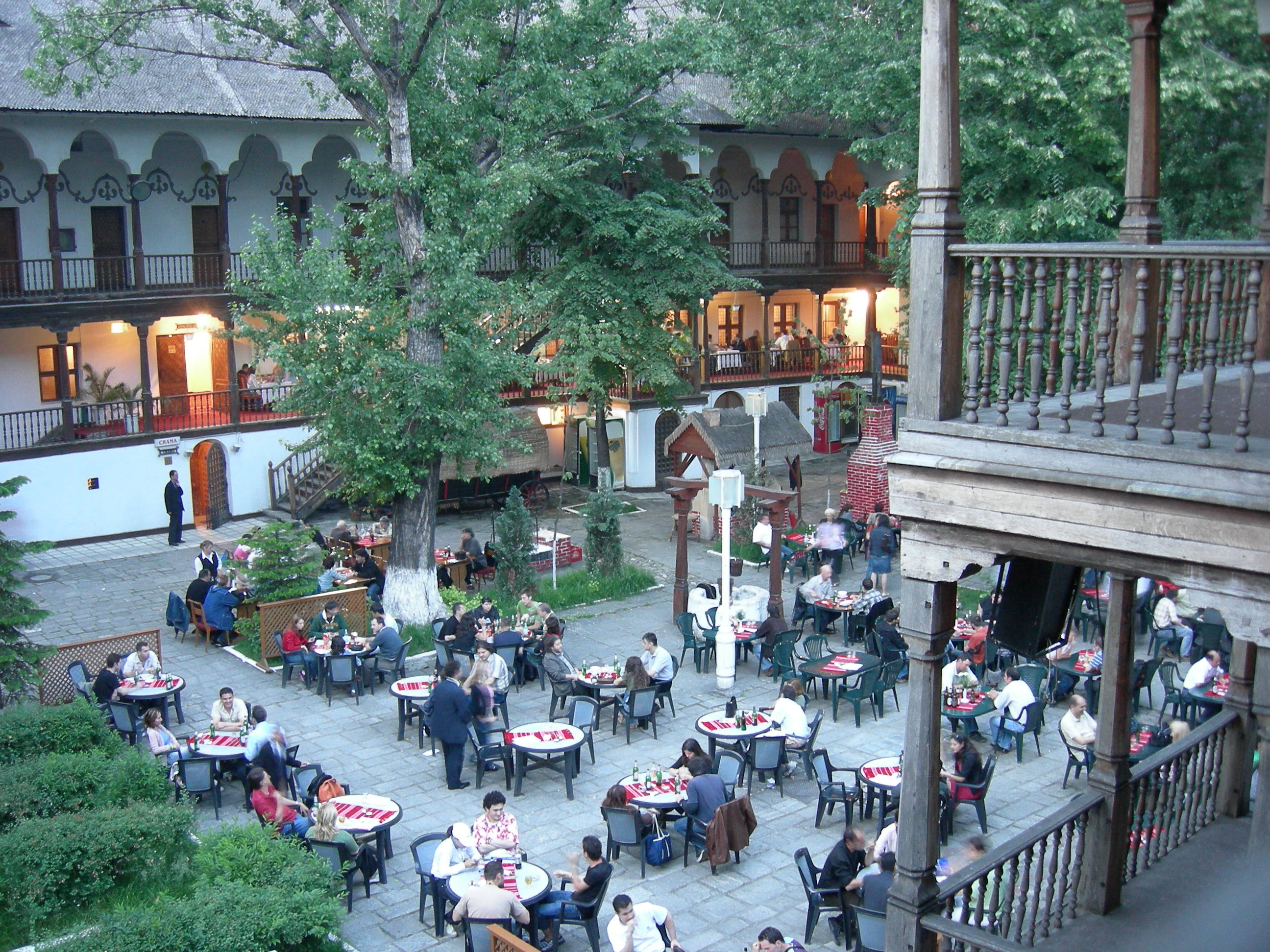 Courtyard of Manuc's Inn (Hanul Manuc) — in Bucharest, Romania.